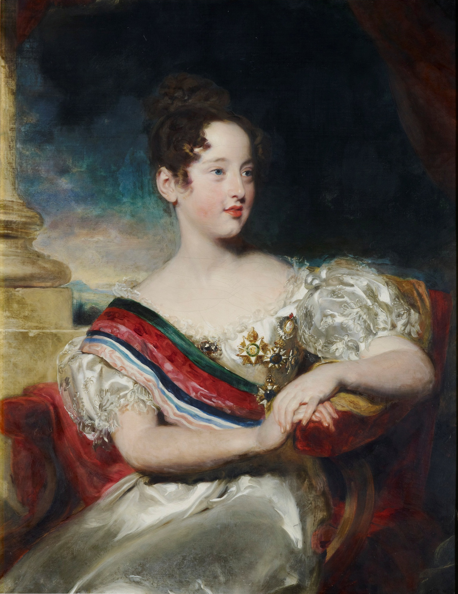 Dona (Lady) Maria II, Queen of Portugal, at age 10, 1829